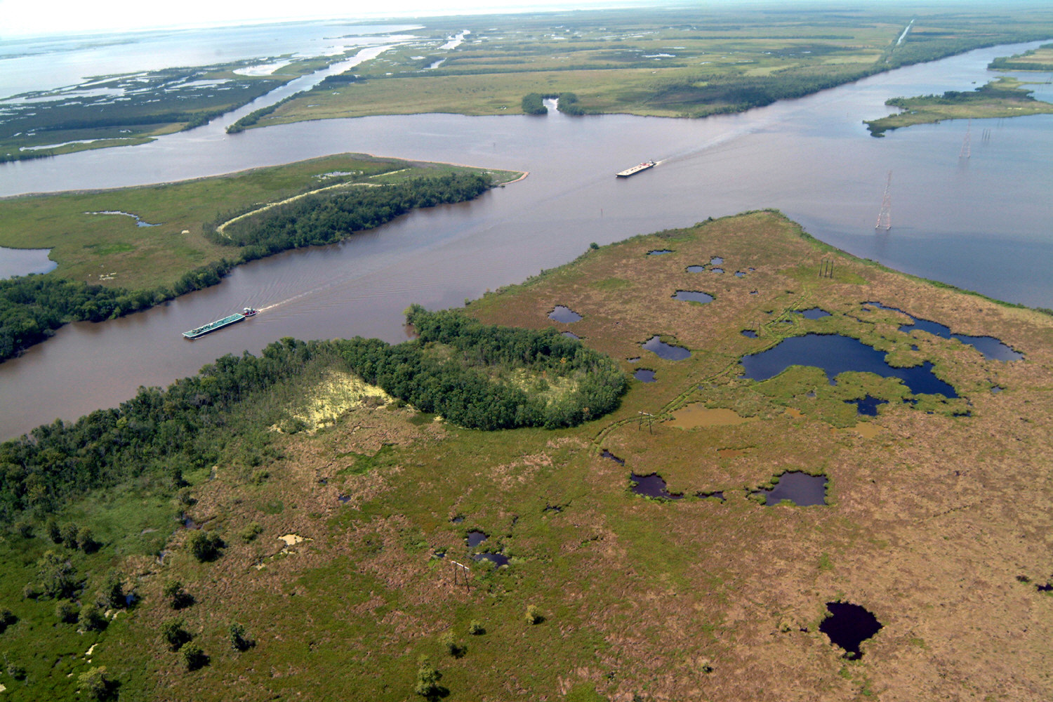 Navigation on the Gulf Intracoastal Waterway (GIWW), where it intersects with Bayou Perot in Louisiana, USA. The view in this picture is to the south. The GIWW runs left–right across the picture. The bayou comes in from the left and enters Lake Salvador on the right. The bayou is the boundary between Jefferson Parish in the foreground and Lafourche Parish in the distance beyond the bayou.